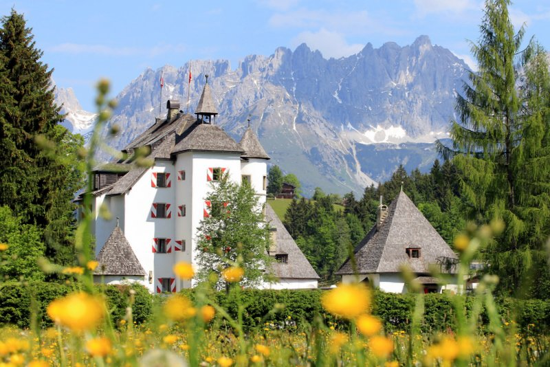 Im Hintergrund erstreckt sich der Wilde Kaiser